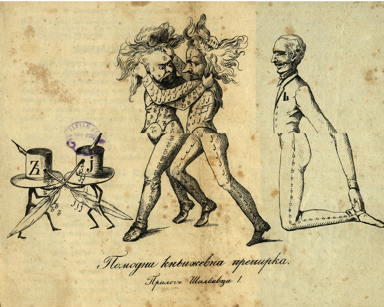 Magazine Šaljivac, attachment to number 1, 1850, Belgrade, Serbia Srpski (latinica): Časopis Šaljivac, prilog broju 1, 1850, Beograd, Srbija